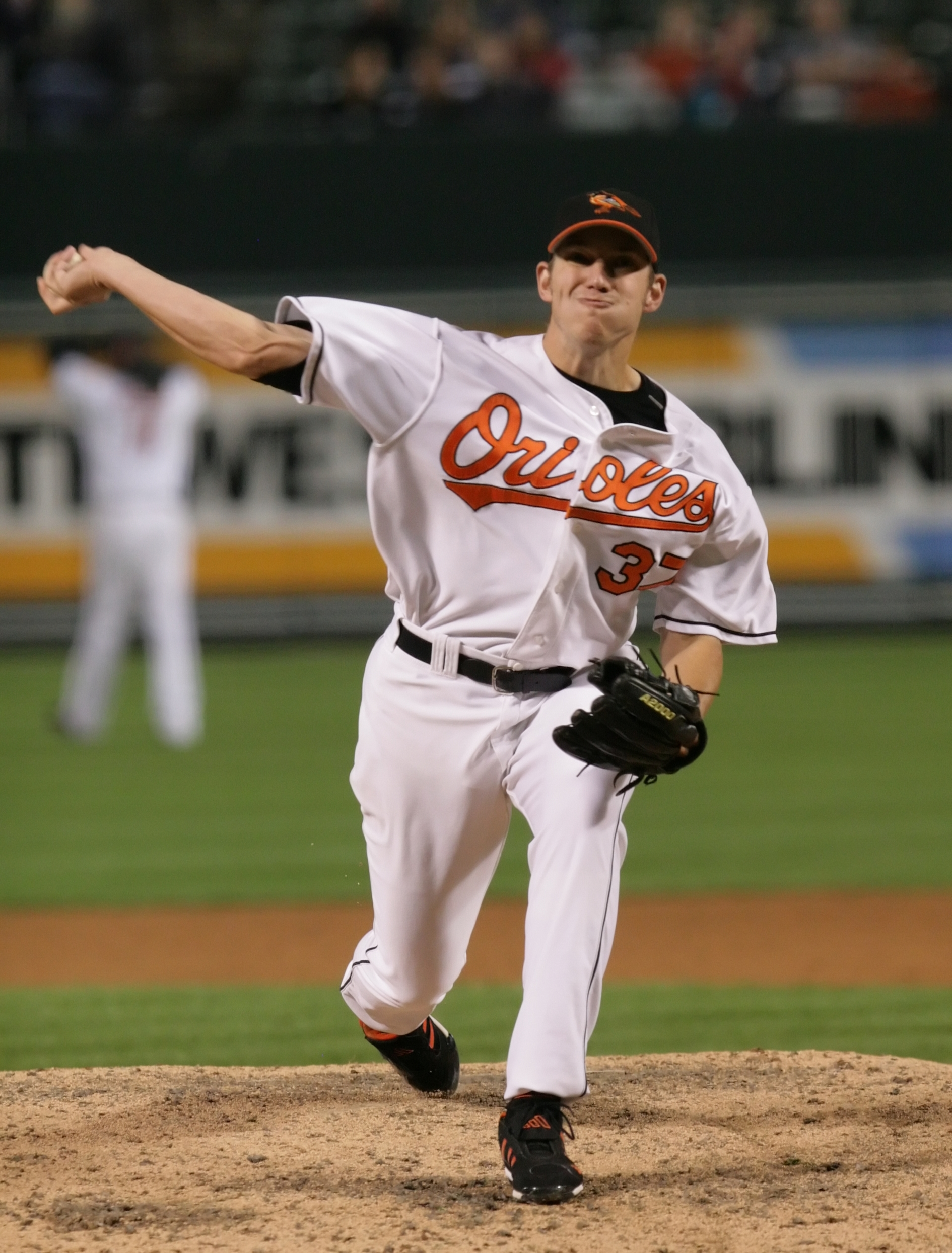 Chris Ray